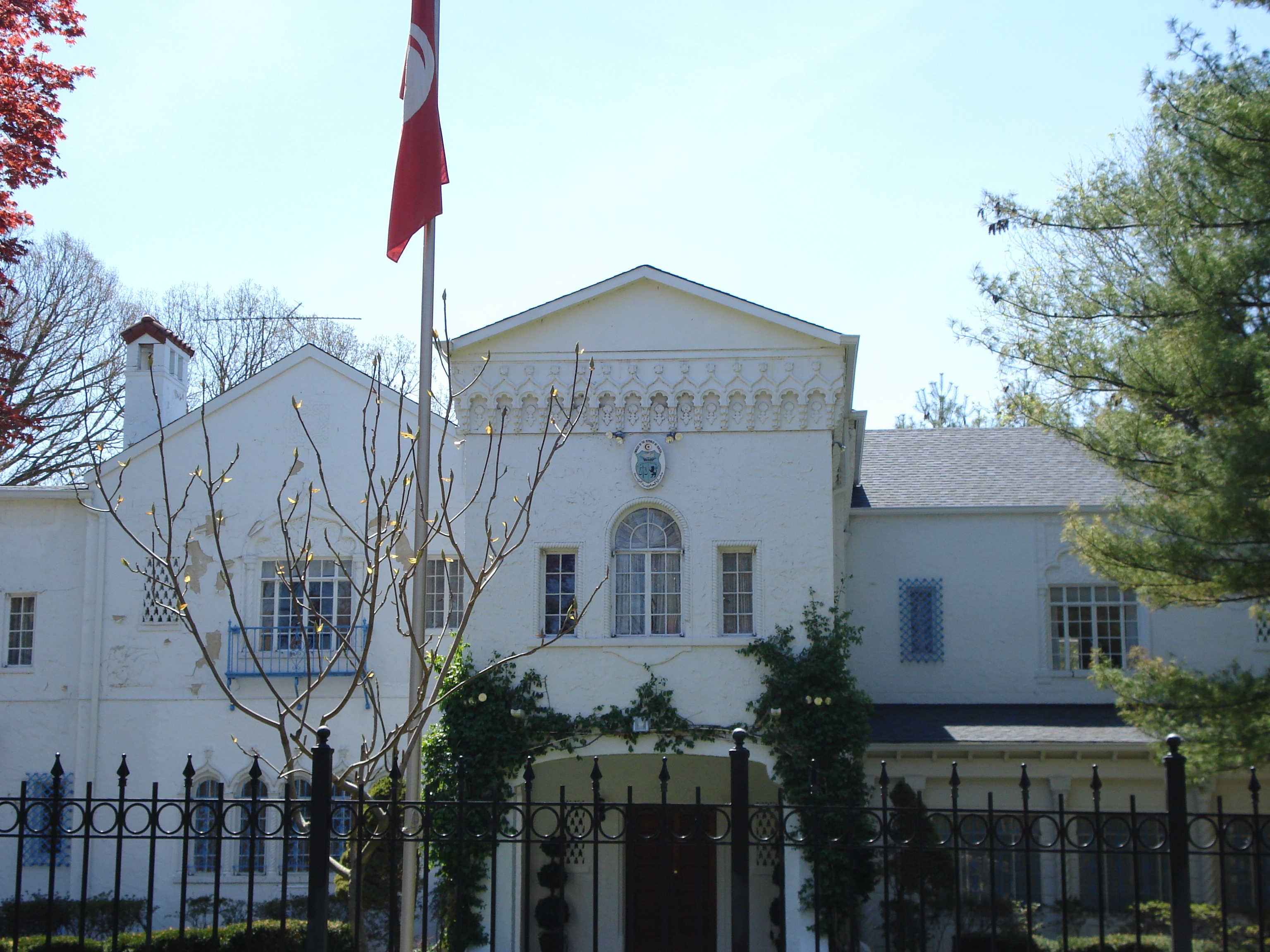 Tunisian Ambassador residence in Washington.